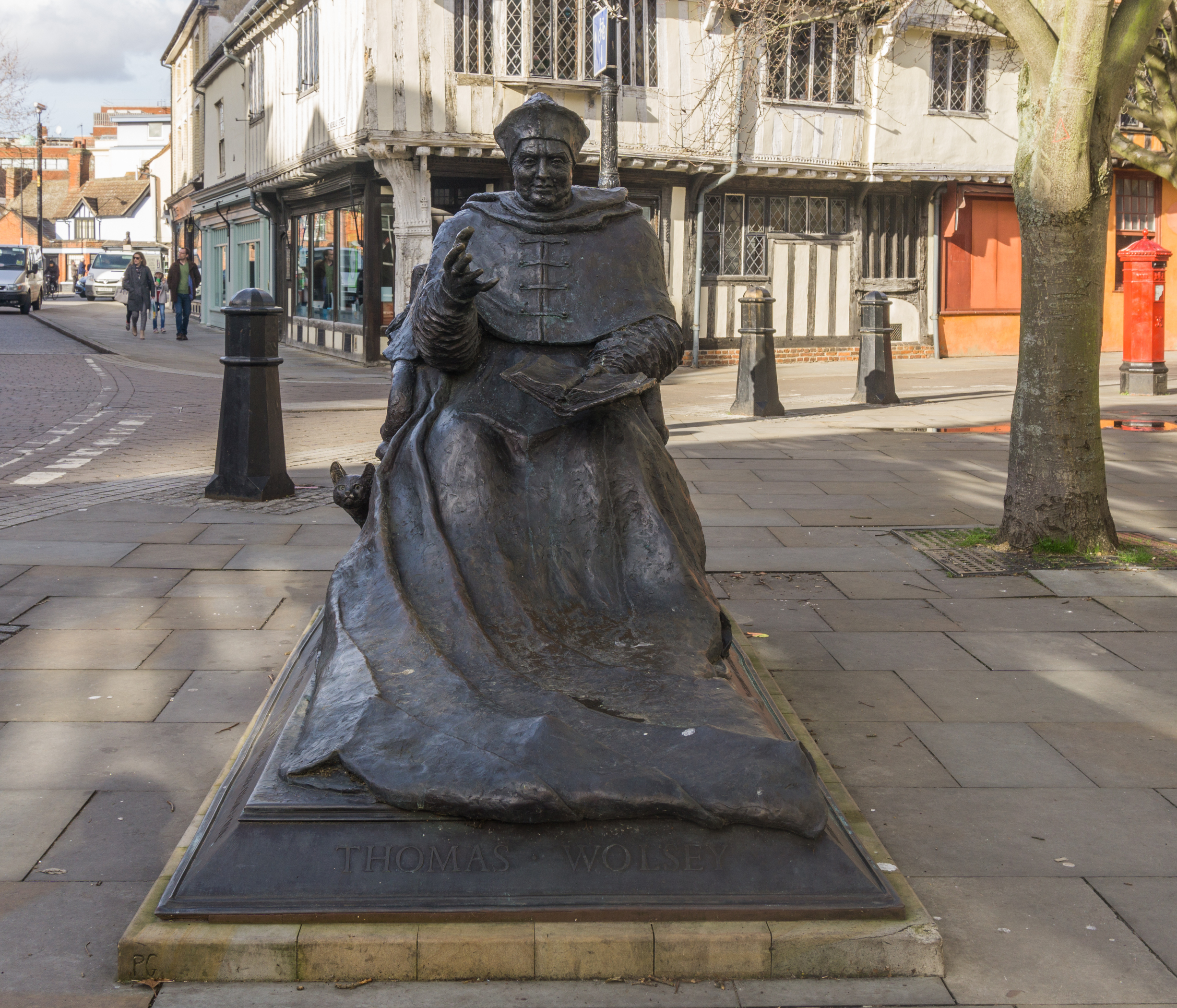 Bronze statue of Cardinal Thomas Wolsey in St Nicholas Street, Ipswich, with Curson Lodge in the background